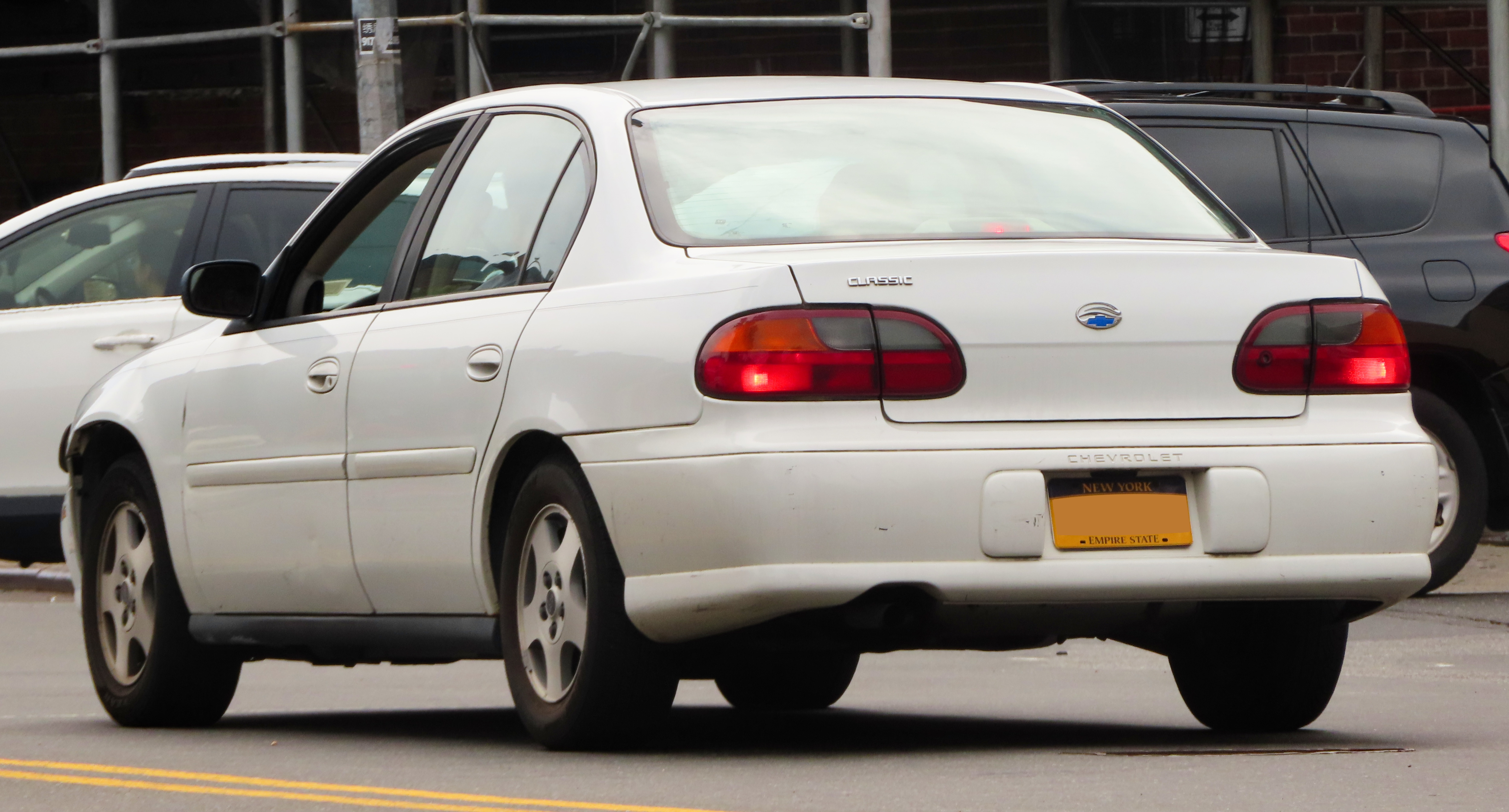 A 2004 Chevrolet Malibu Classic photographed in Flushing, Queens, New York, USA